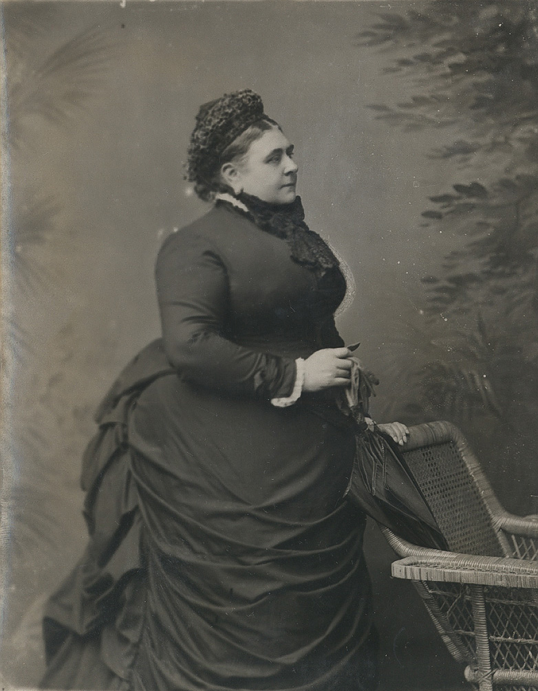 6.4" x 4.7" gelatin silver print showing a three quarter length portrait of Princess Mary Adelaide, Duchess of Teck